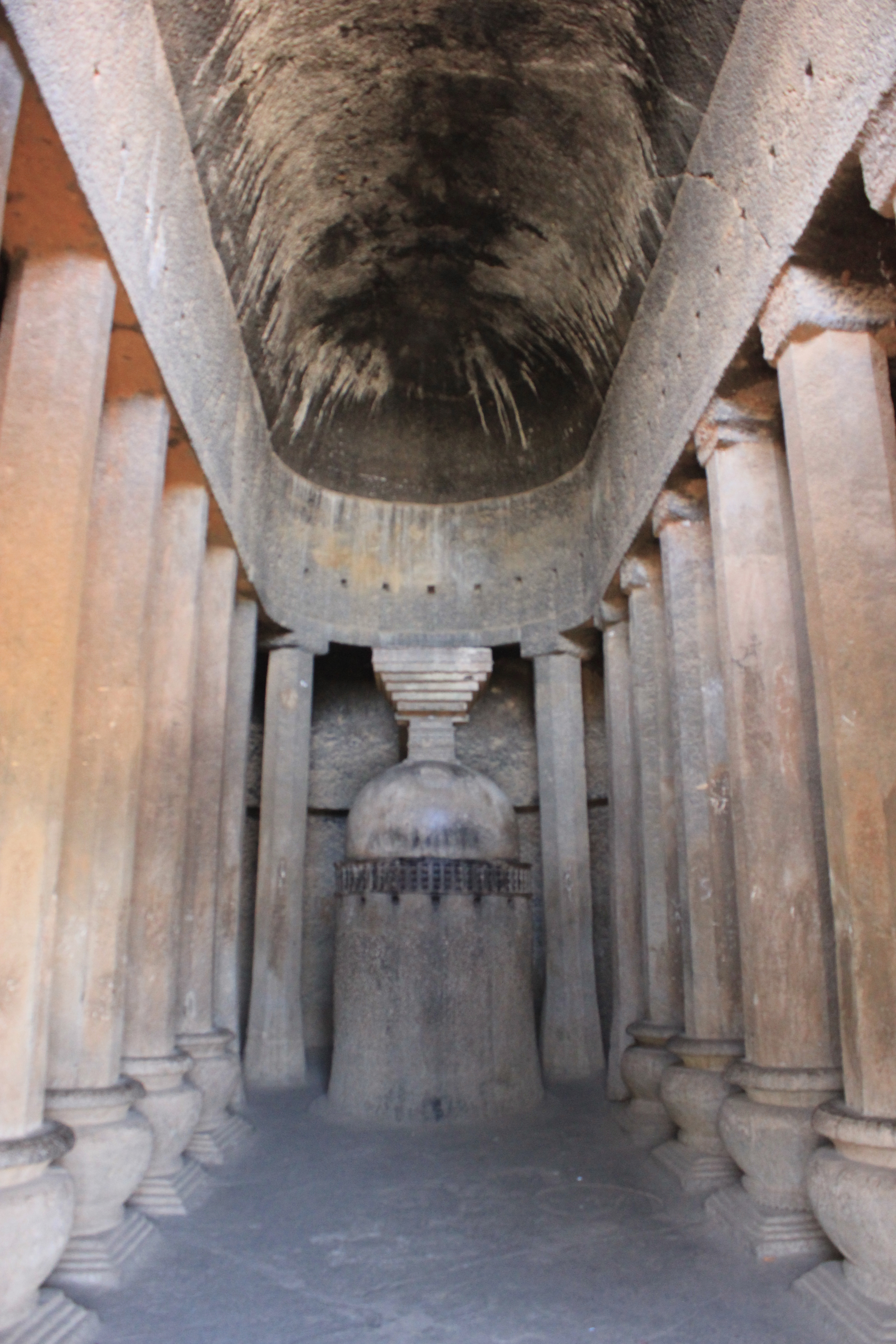 Pandev Lena Caves